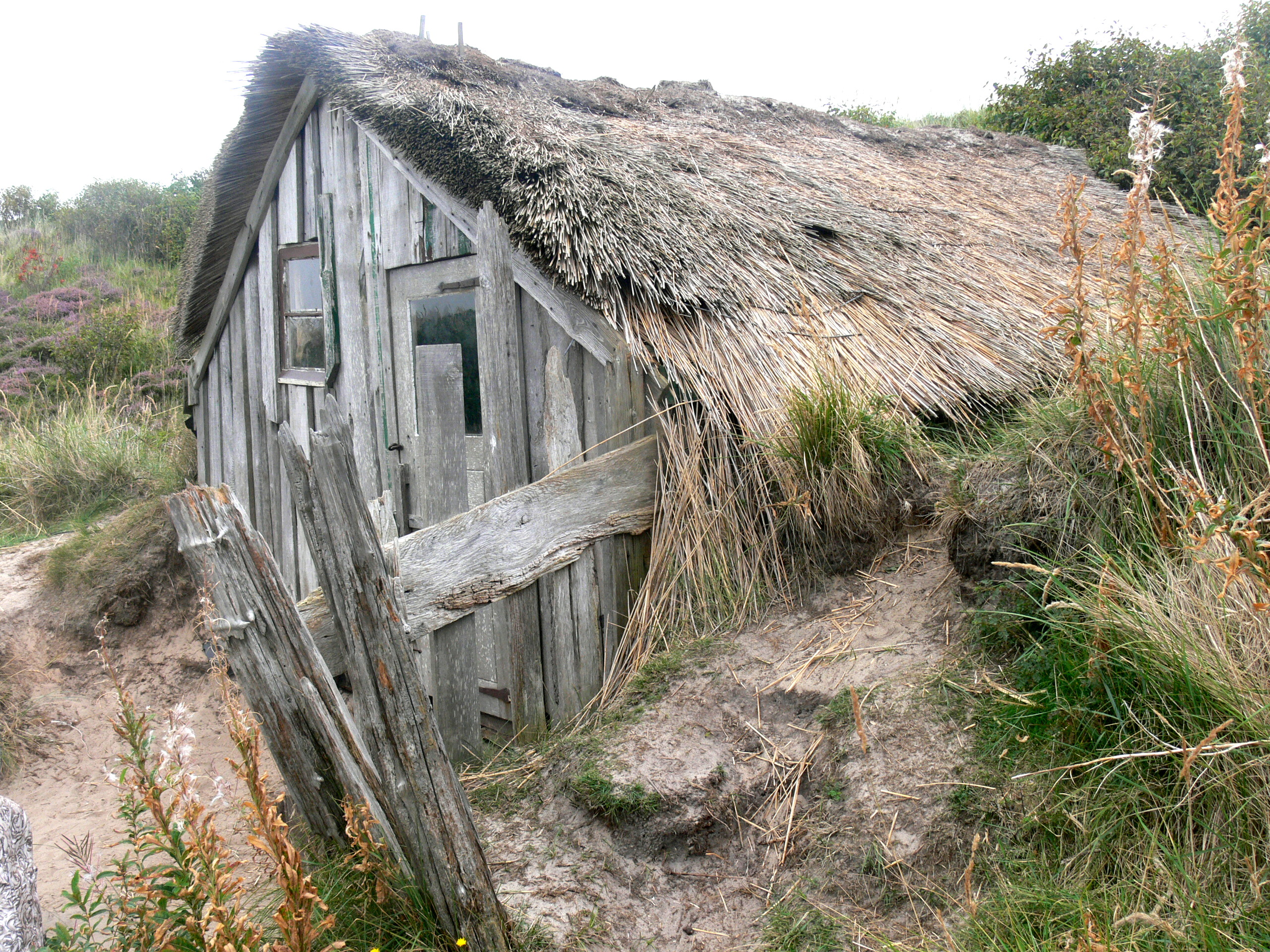 Texel. Thatched Hut in the dunes near Ecomare at De Koog.